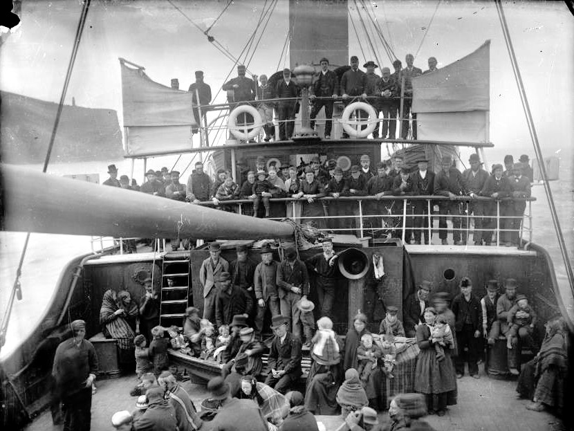 A photo taken aboard the emigrant vessel Vesturfari (western traveler) somewhere in Iceland between 1866-1909 by Sigfús Eymundsson (1837-1911).